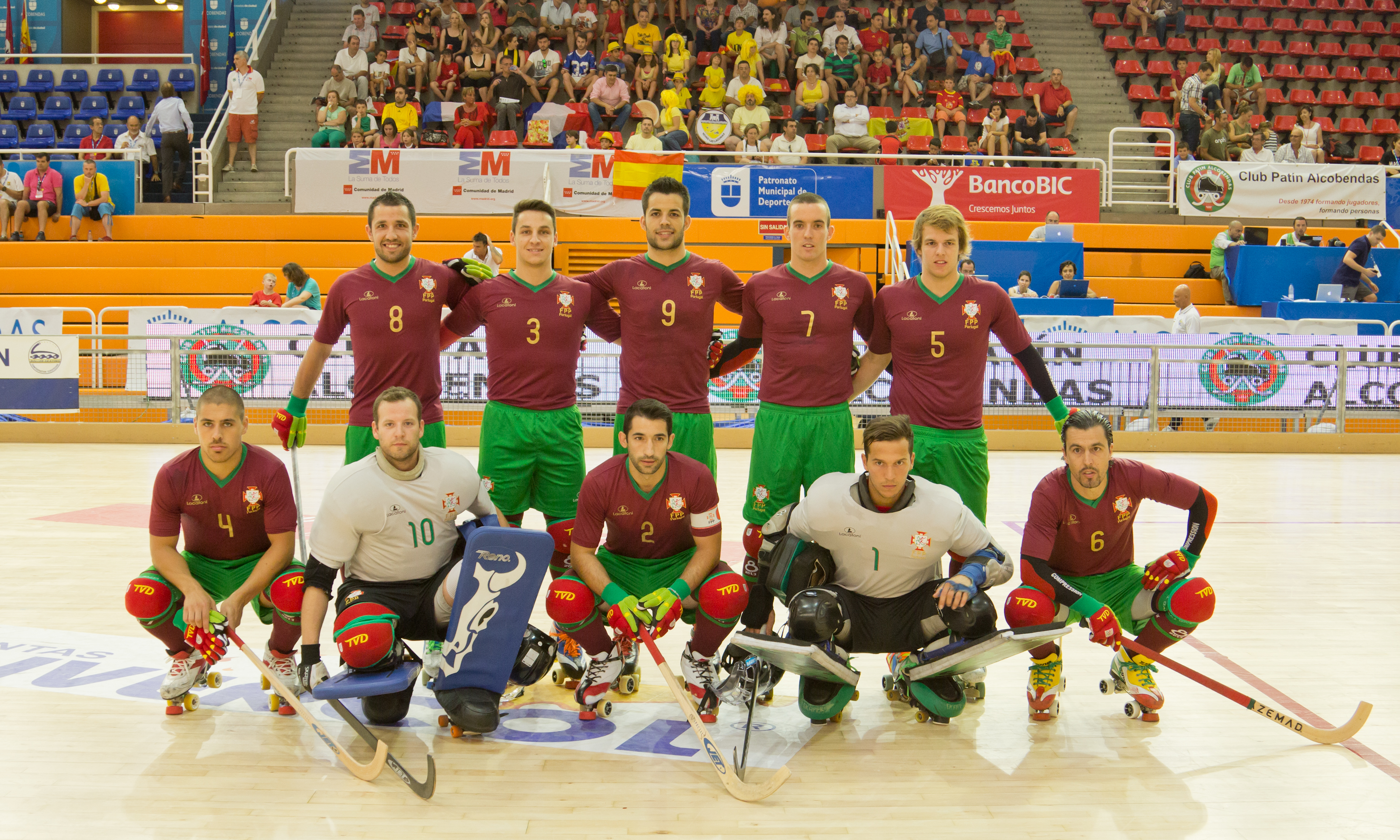 Portugal national roller hockey team at the 2014 CERH Championship in Alcobendas, Spain.